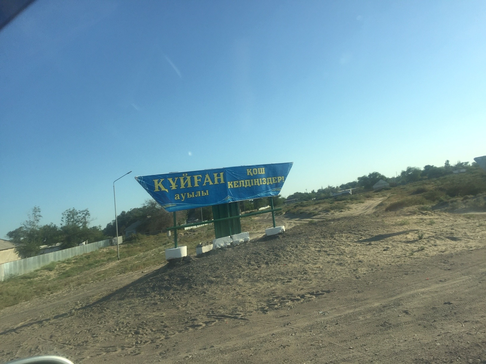 Kuygan village, Ili river, Qazaqstan